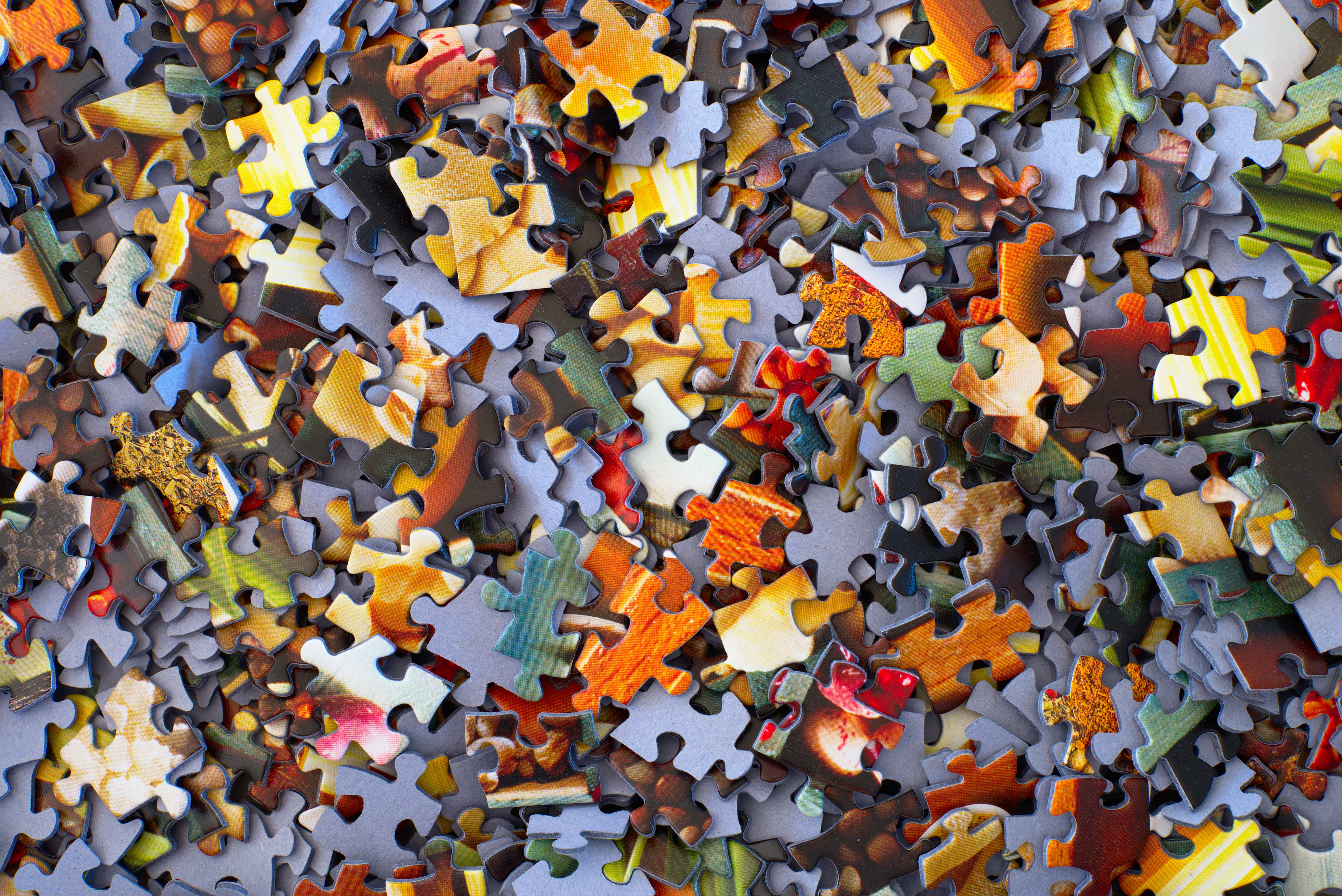 Hans-Peter Gauster 2017